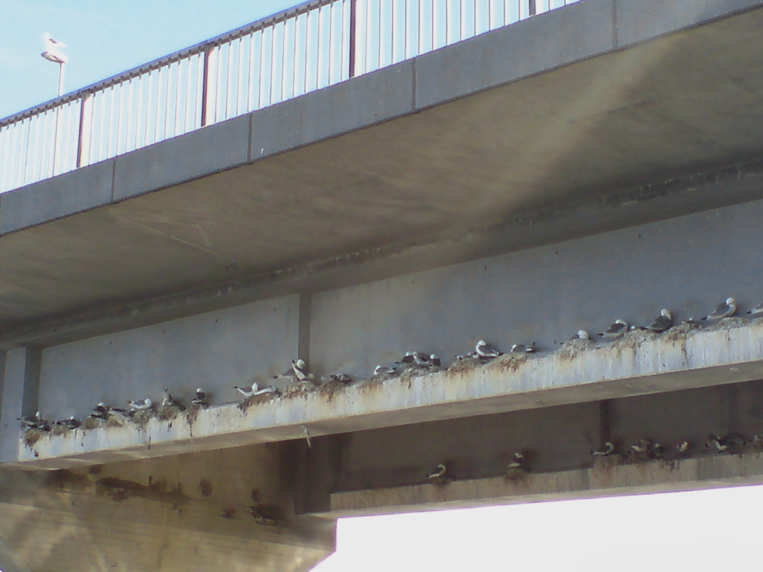 Birds under the bridge.